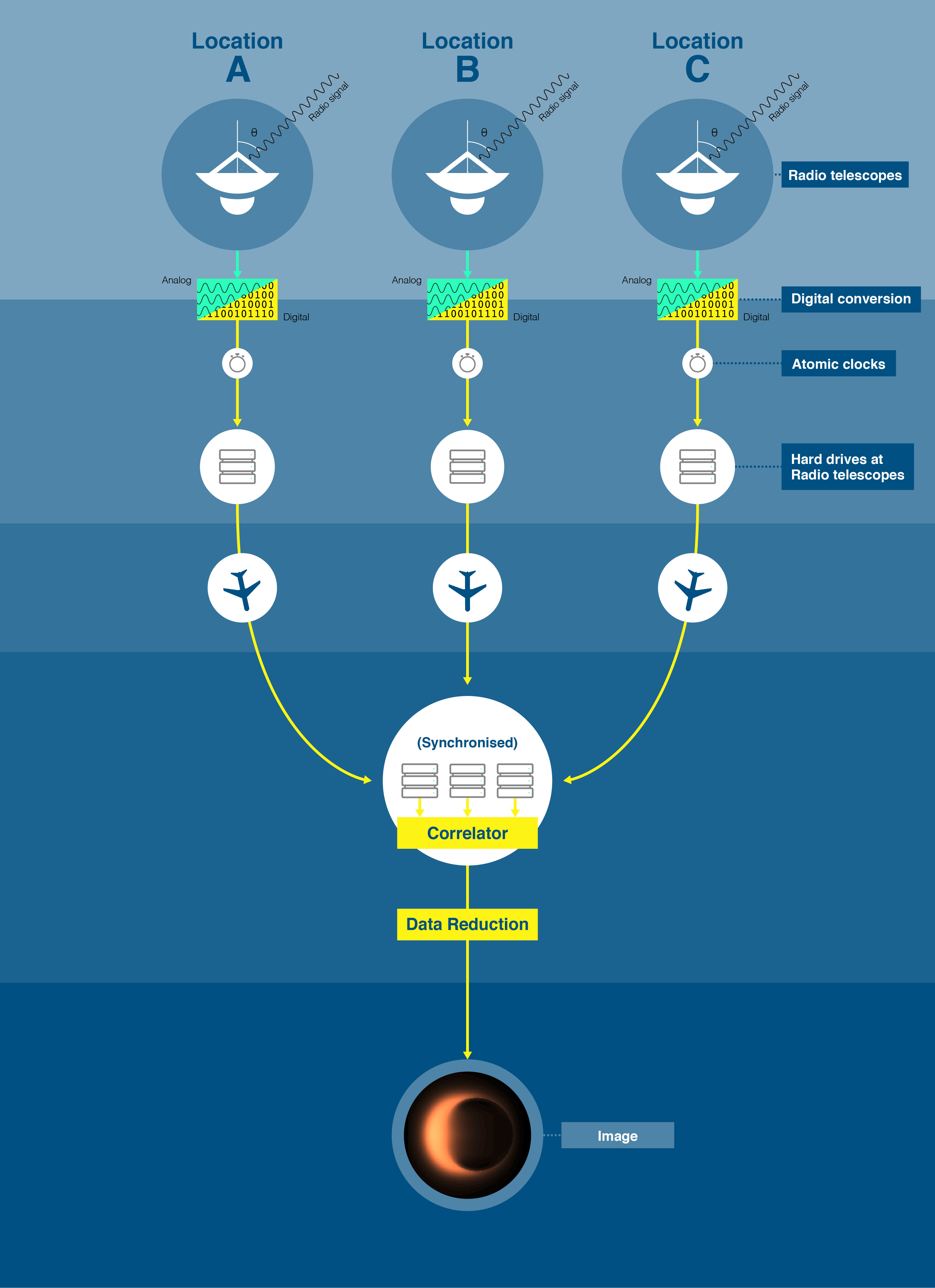 A schematic diagram of the VLBI mechanism of EHT. Each antenna, spread out over vast distances, has an extremely precise atomic clock. Analogue signals collected by the antenna are converted to digital signals and stored on hard drives together with the time signals provided by the atomic clock. The hard drives are then shipped to a central location to be synchronised. An astronomical observation image is obtained by processing the data gathered from multiple locations.